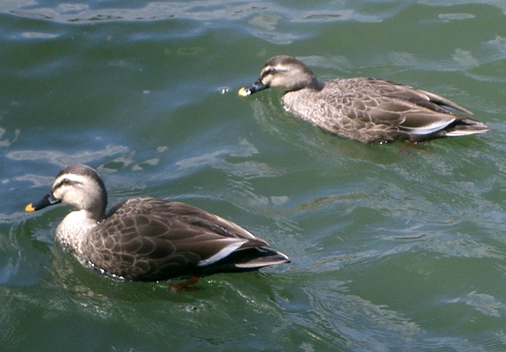 Eastern Spot-billed Duck, Hyogo-ken Japan